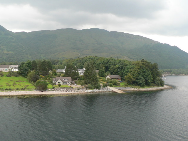 North Ballachulish: waterfront The shoreline of North Ballachulish on Loch Leven, viewed from the bridge.